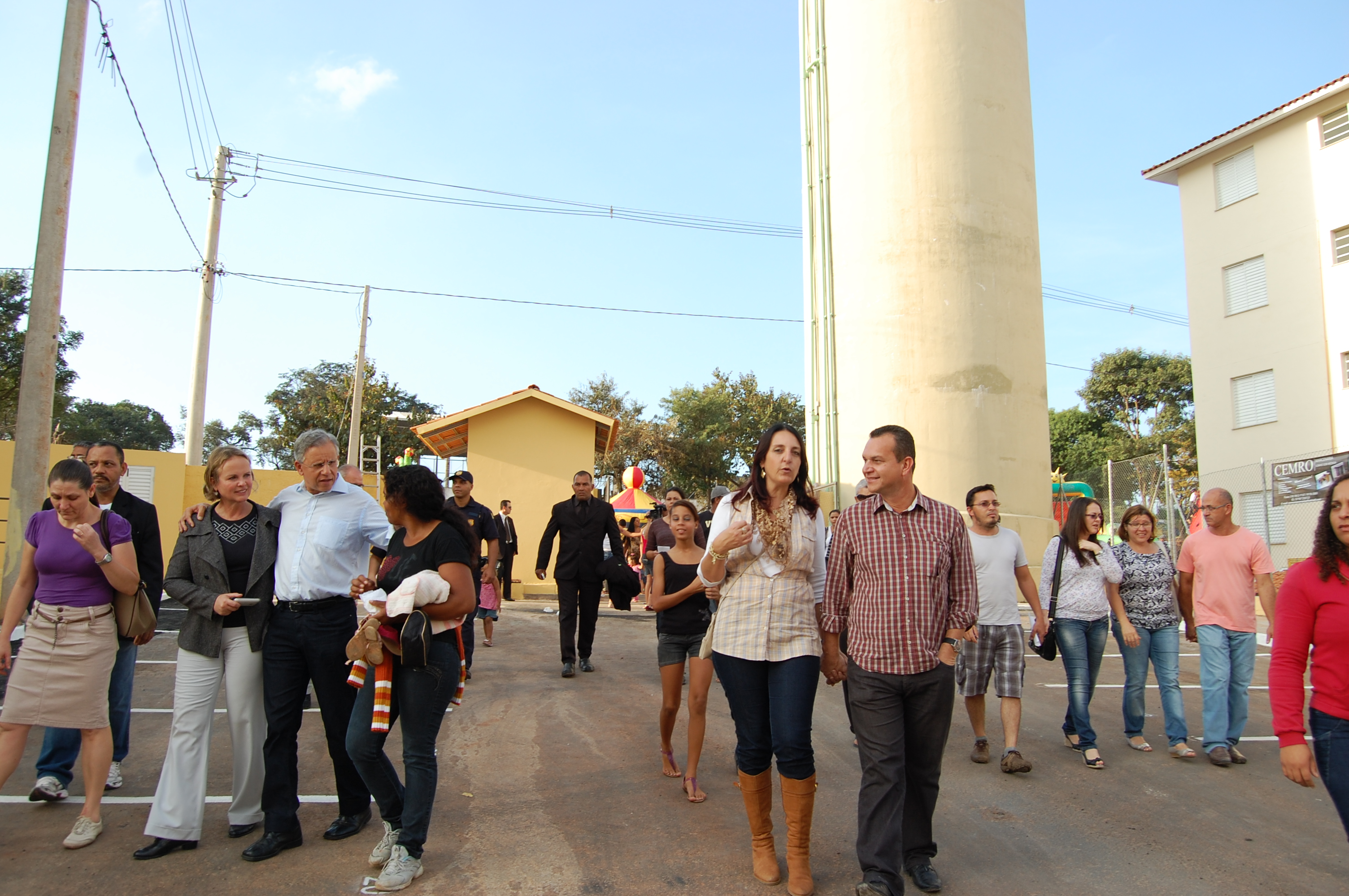 Popular houses in Hortolândia, São Paulo, Brazil.